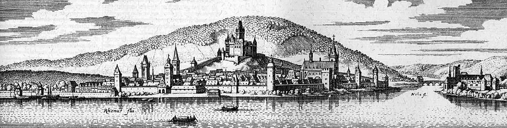 This is a scan of the historical document: Title: Bingen - Topographia Hassiae language: german